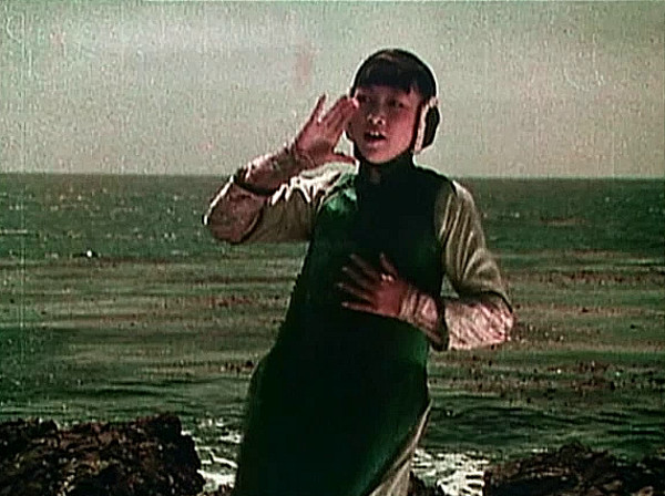 United States actress Anna May Wong calls out in the 1922 Hollywood film The Toll of the Sea.